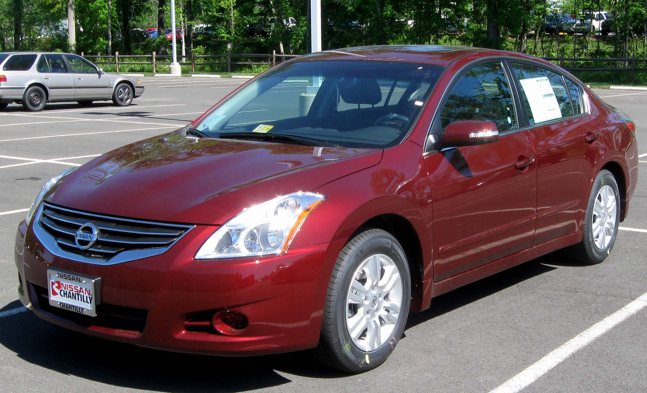 2010 Nissan Altima photographed in Chantilly, Virginia, USA.